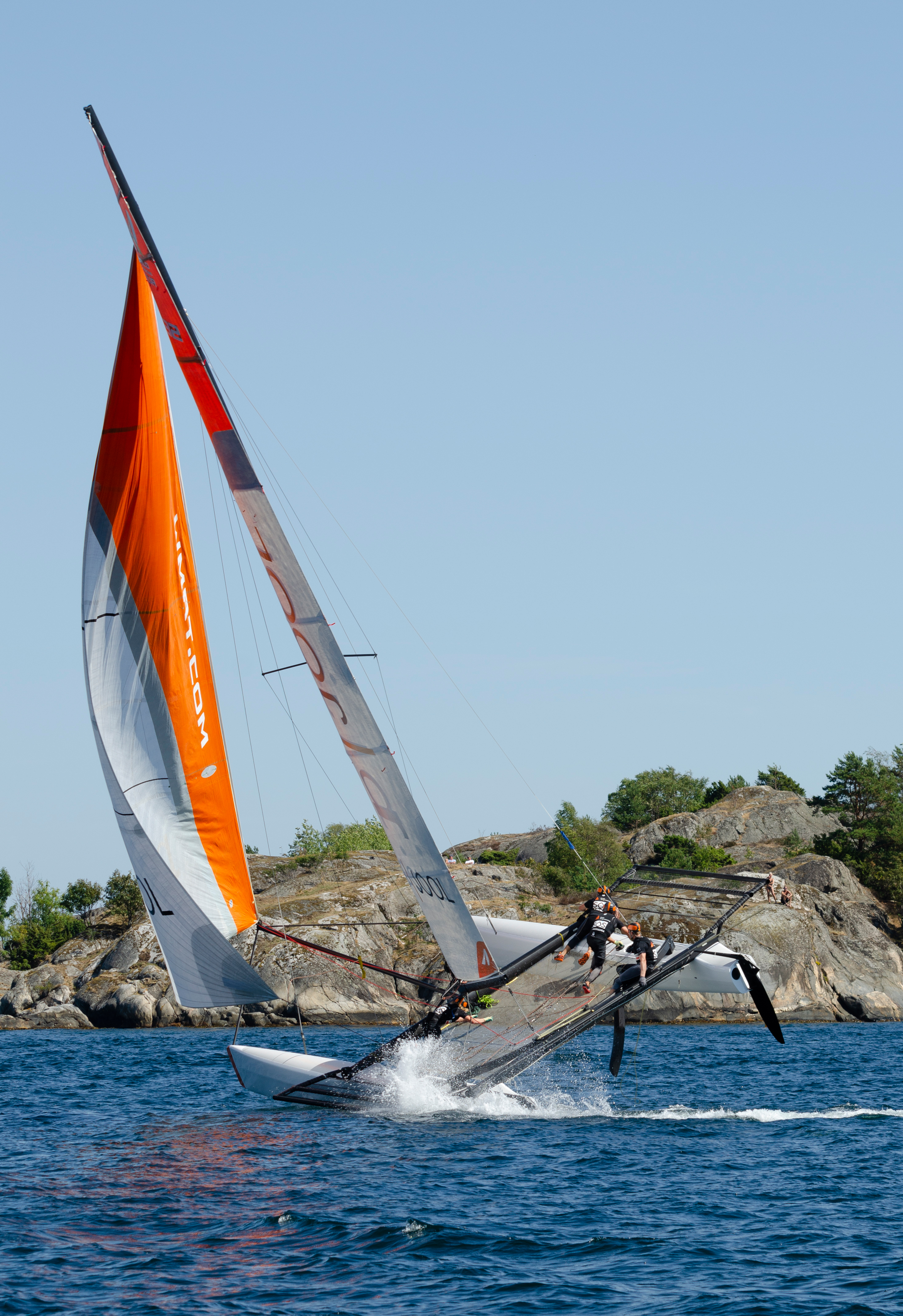 Norsteam's crew scrambling to change sides and avoid capsizing as they turn in Match Cup Norway 2018 in Risør, part of the World Match Racing Tour.